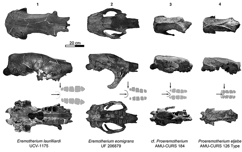 Skulls of 1: Eremotherium laurillardi, 2: Eremotherium eomigrans, 3: Proeremotherium sp. and 4: Proeremotherium eljebe, compared in (from top to bottom) dorsal, lateral and palatal views. In light grey are the upper dental series alveoli contours of each skull; black arrows shows the outline and extension of the posterior palatal notch, and up to where it reaches in relation to the dental series (in 1 the dotted line is used because that part of the palatal notch was mechanically broken).